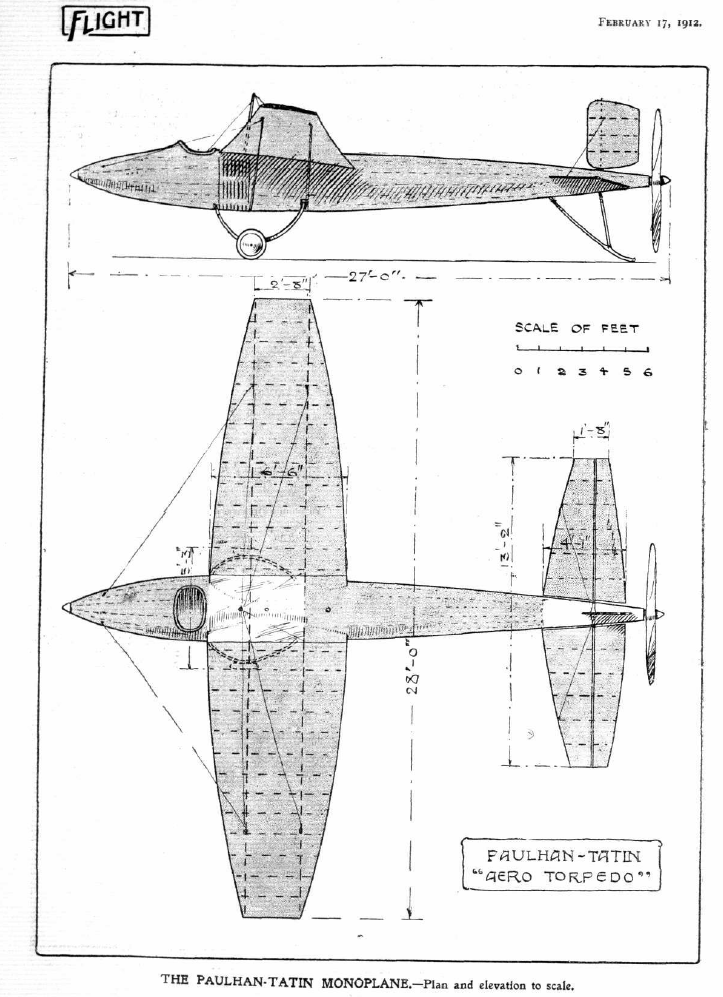 Diagram published in 1912 issue of "Flight" magazine showing Victor Tatin's "Torpedo" aircraft --also known as the "Paulhan-Tatin Aéro-Torpille No.1" and the "Paulhan-Tatin Aero Torpedo" (built in collaboration with early French pilot Louis Paulhan). The streamlined shape was a purposeful attempt to lessen the effects of aeronautical drag.